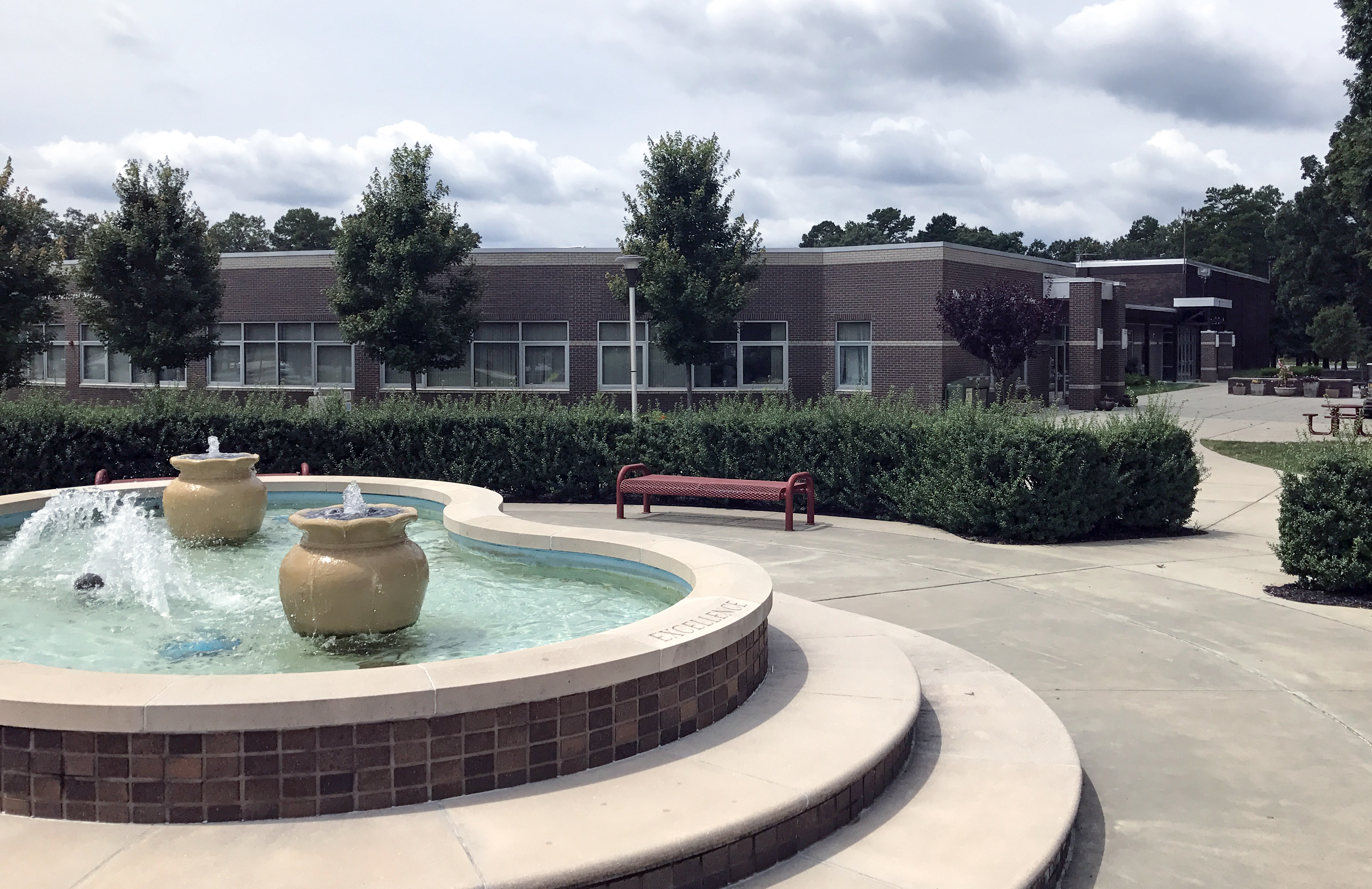 Cumberland County College fountain and student center